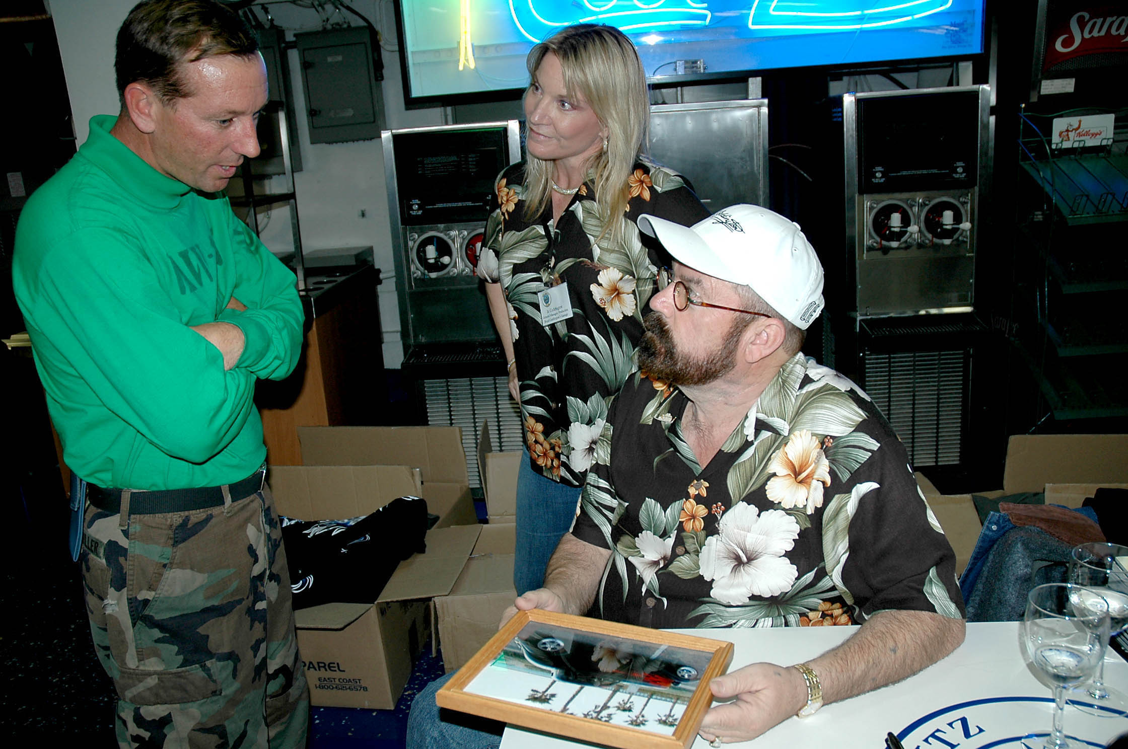 Pacific Ocean (May 8, 2005) – Television show “American Hot Rod” car builder Boyd Coddington and his wife Jo signed autographs for Sailors stationed aboard the nuclear-powered aircraft carrier USS Nimitz (CVN 68). The Nimitz is currently on a six-month deployment in support of the global war on terrorism. U.S. Navy photo by Photographer’s Mate 3rd Class Jeremiah Sholtis (RELEASED)